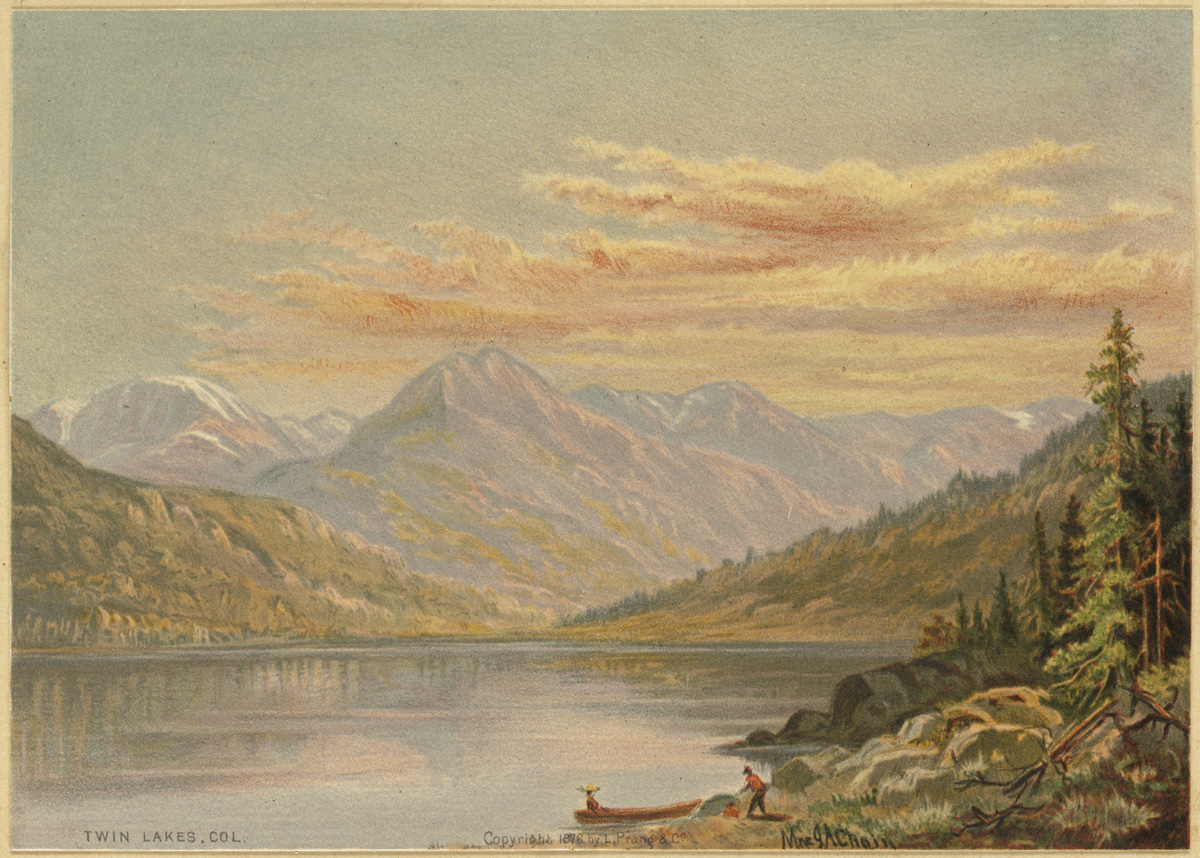 File name: 07_11_000299 Title: Twin Lakes, Colorado Creator/Contributor: Chain, Helen Henderson, 1849-1892 (artist); L. Prang & Co. (publisher) Copyright date: 1876 Genre: Chromolithographs; Landscape prints Location: Boston Public Library, Print Department Rights: No known restrictions Flickr data on 2011-08-07: Camera: Sinar AG Sinarback 54 FW, Sinar m License: CC BY 2.0 User: Boston Public Library BPL